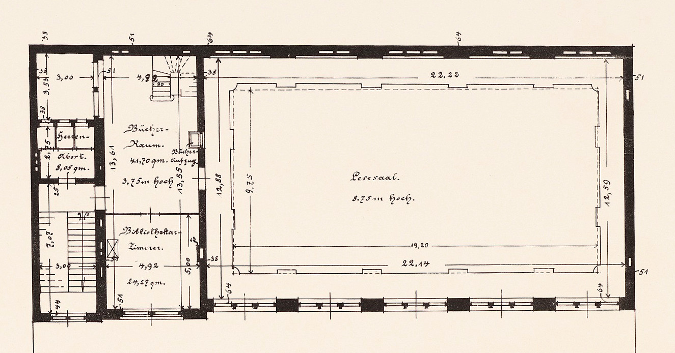 Floor plan of the public library “Volksbibliothek und Lesehalle Charlottenburg” by Paul Bratring (1840–1913) as part of the building 29037-KHS-Grundriss-EG-TUB.jpg